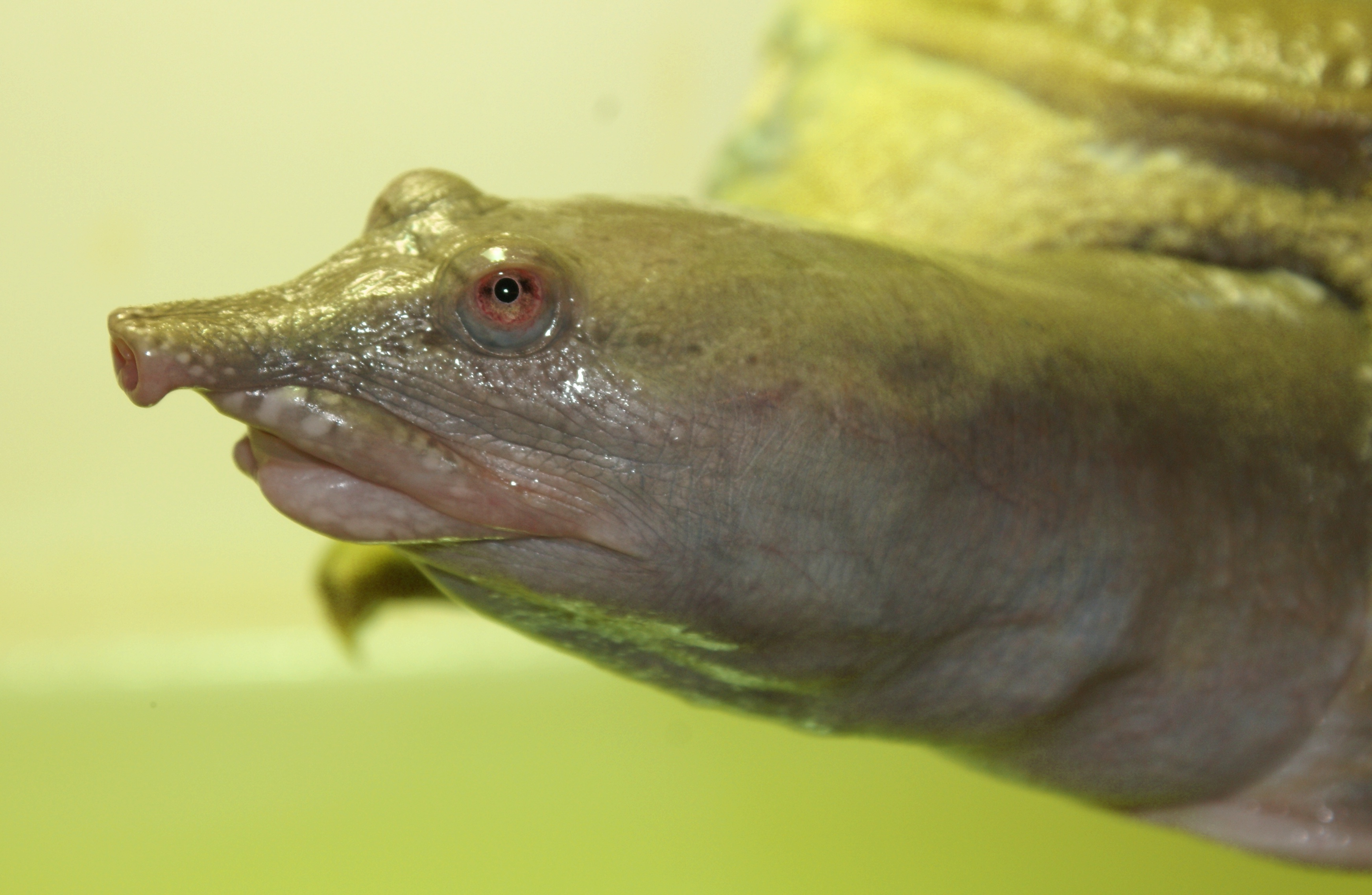 Chinese soft-shelled turtle, Pelodiscus sinensis, Tiergarten Bernburg, Germany